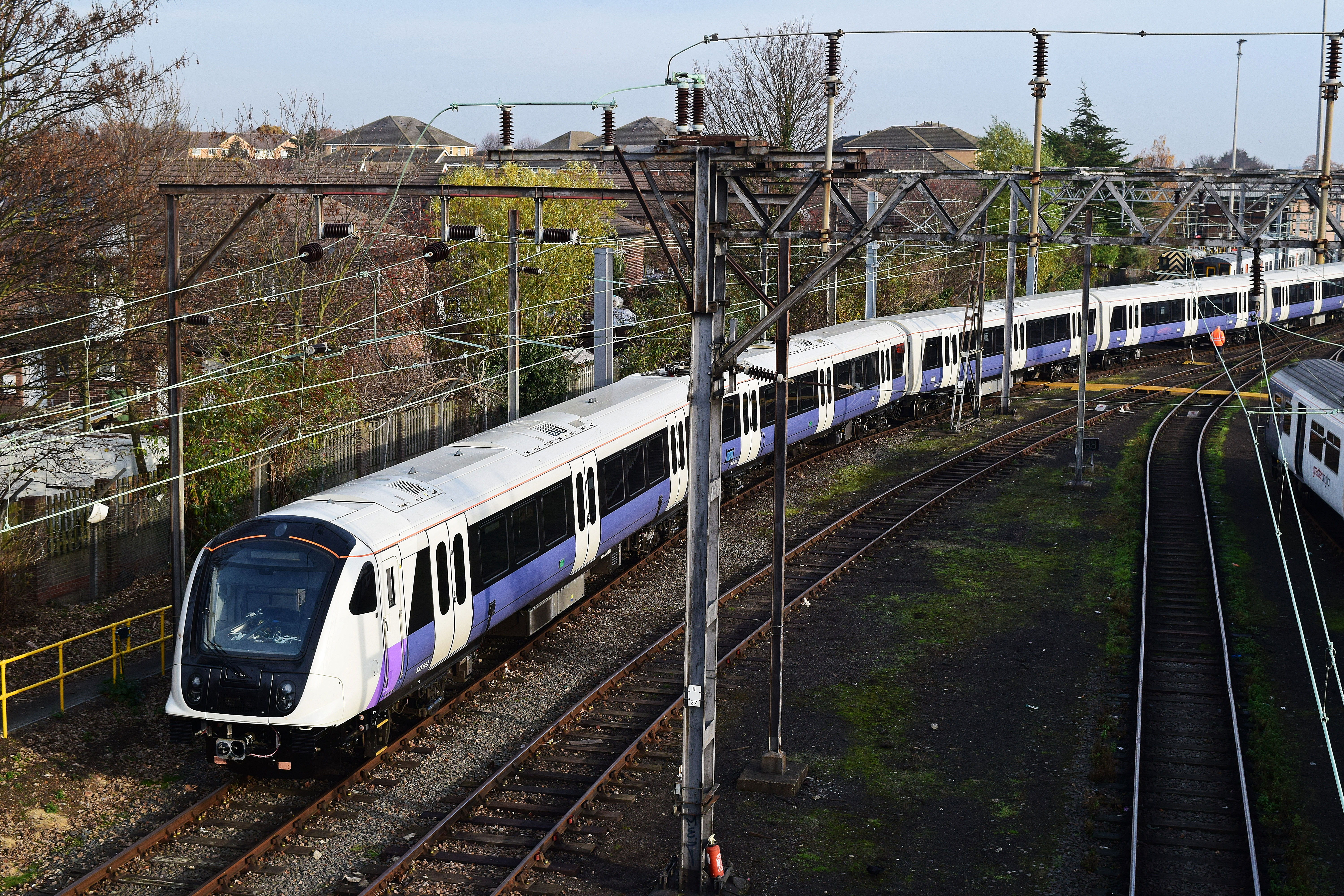 345002 - Ilford E.M.U.D